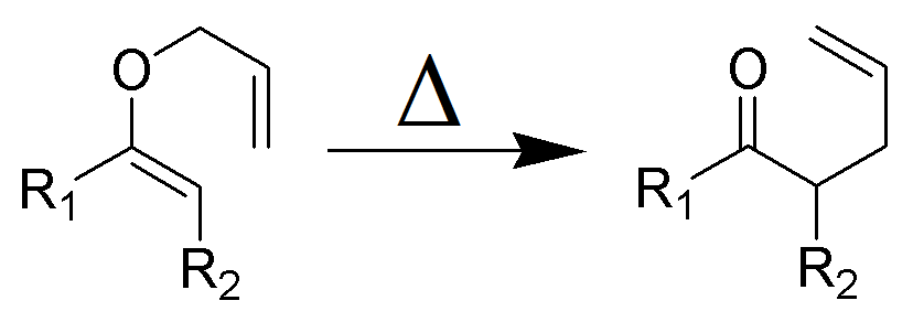 Chemical scheme of the Claisen rearrangement. High-resolution b/w PNG; ChemDraw / The GIMP.